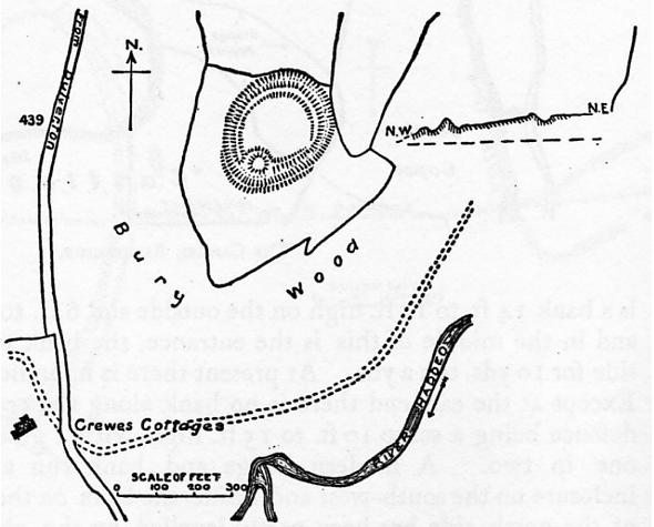 Map of earthworks at Bury Castle, Brompton Regis, Somerset, England.